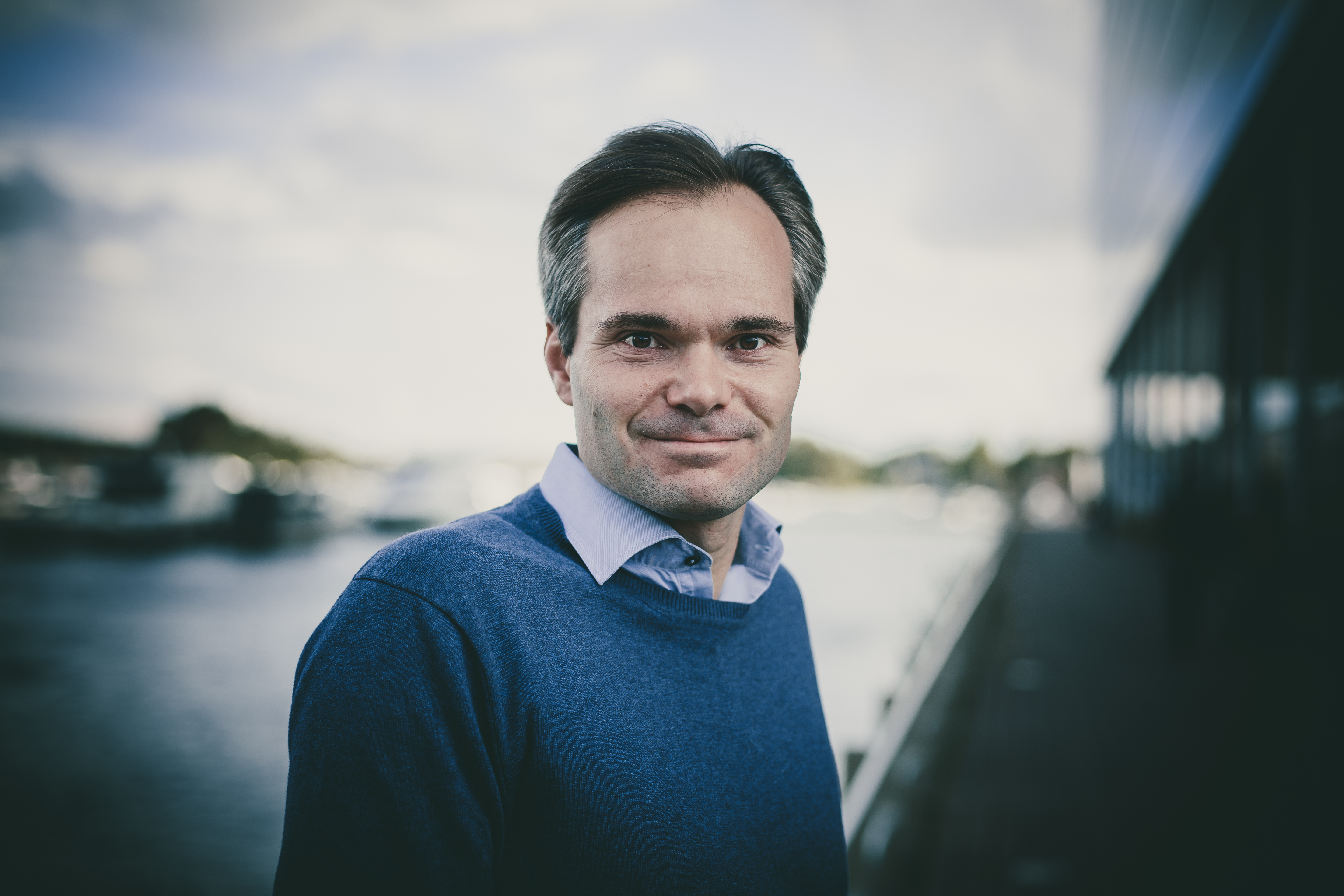 Kai Mykkänen